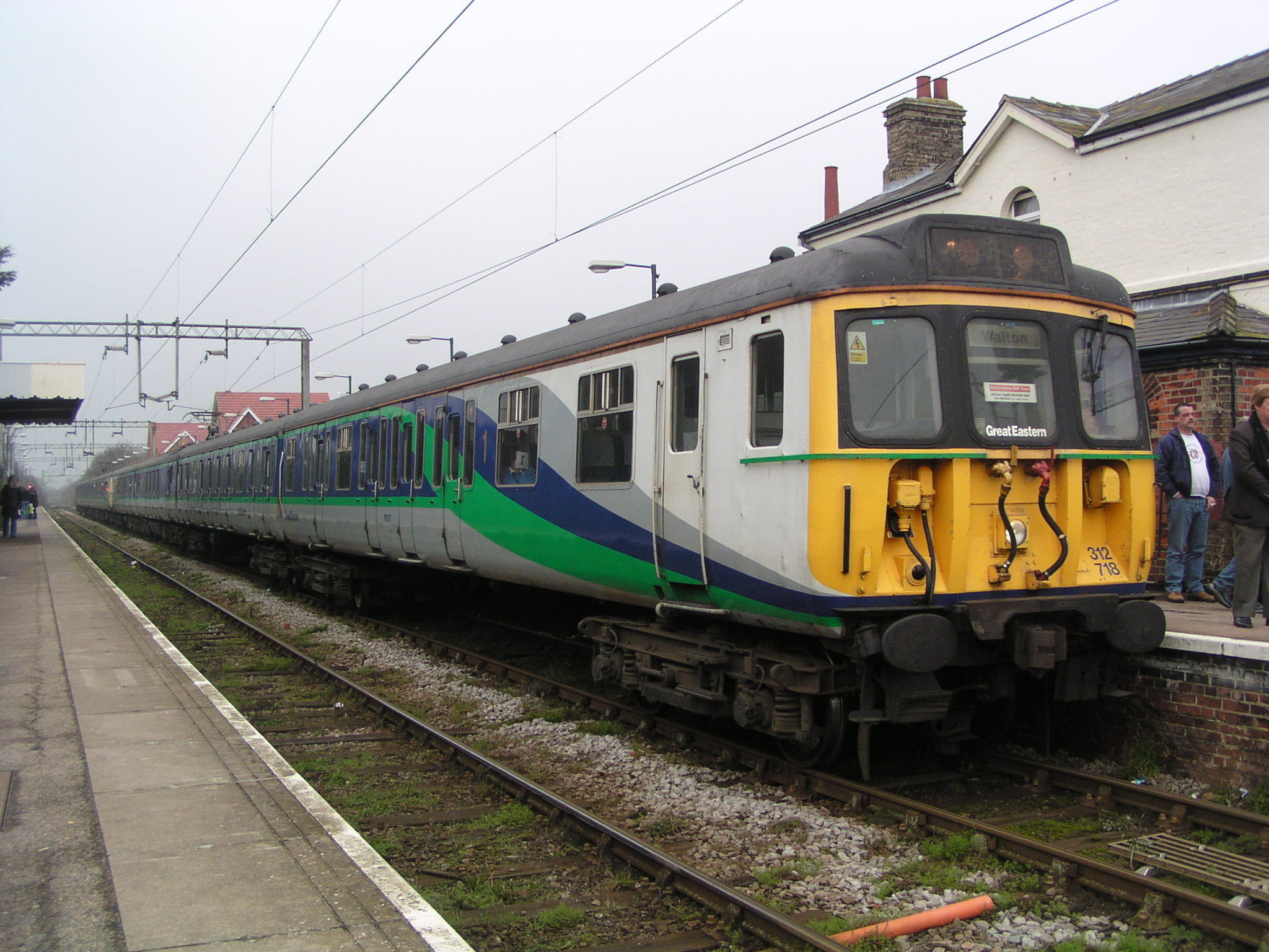 BR Class 312, nos. 312718 and 312721 at Kirby Cross on 6th March 2004 Image by Phil Scott (Our Phellap)